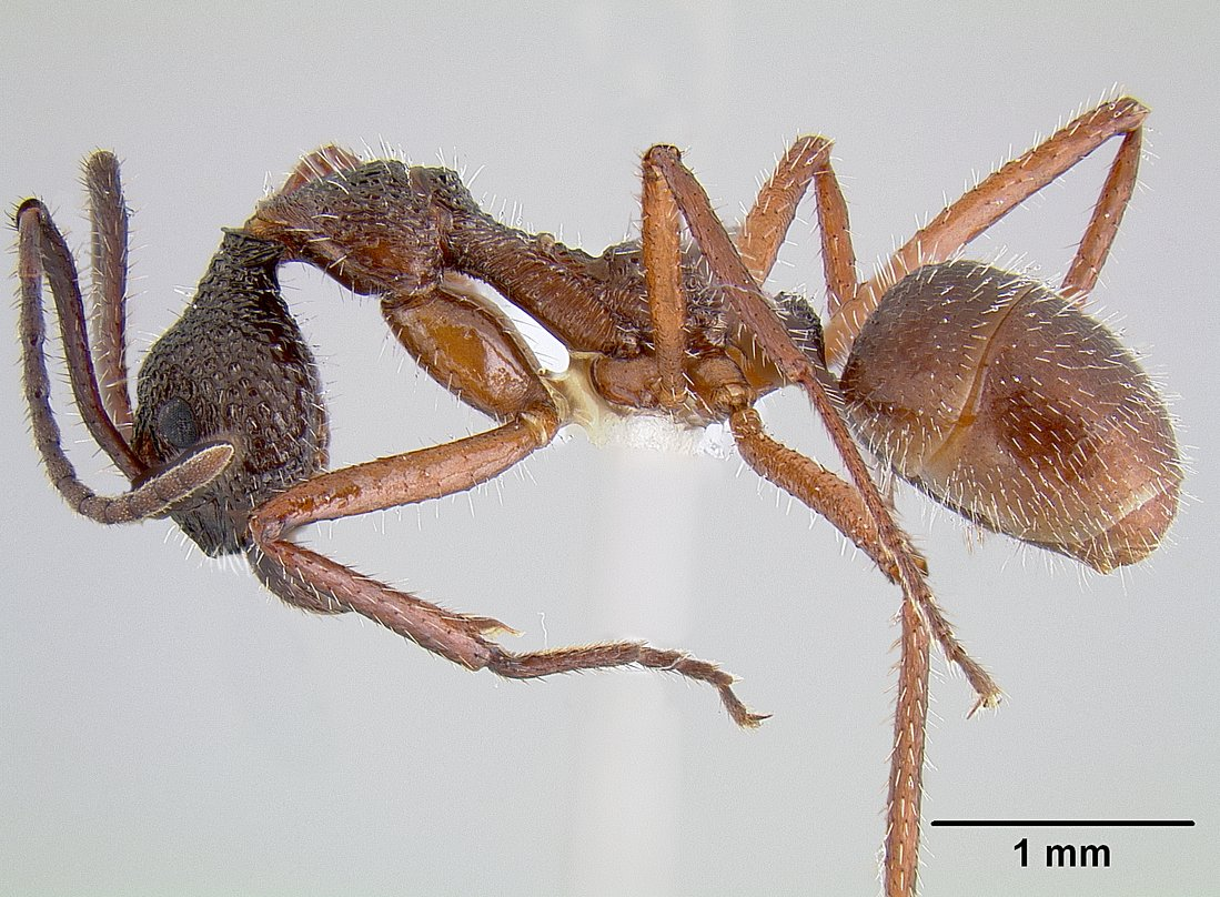 Profile view of ant Dolichoderus attelaboides specimen casent0106108.